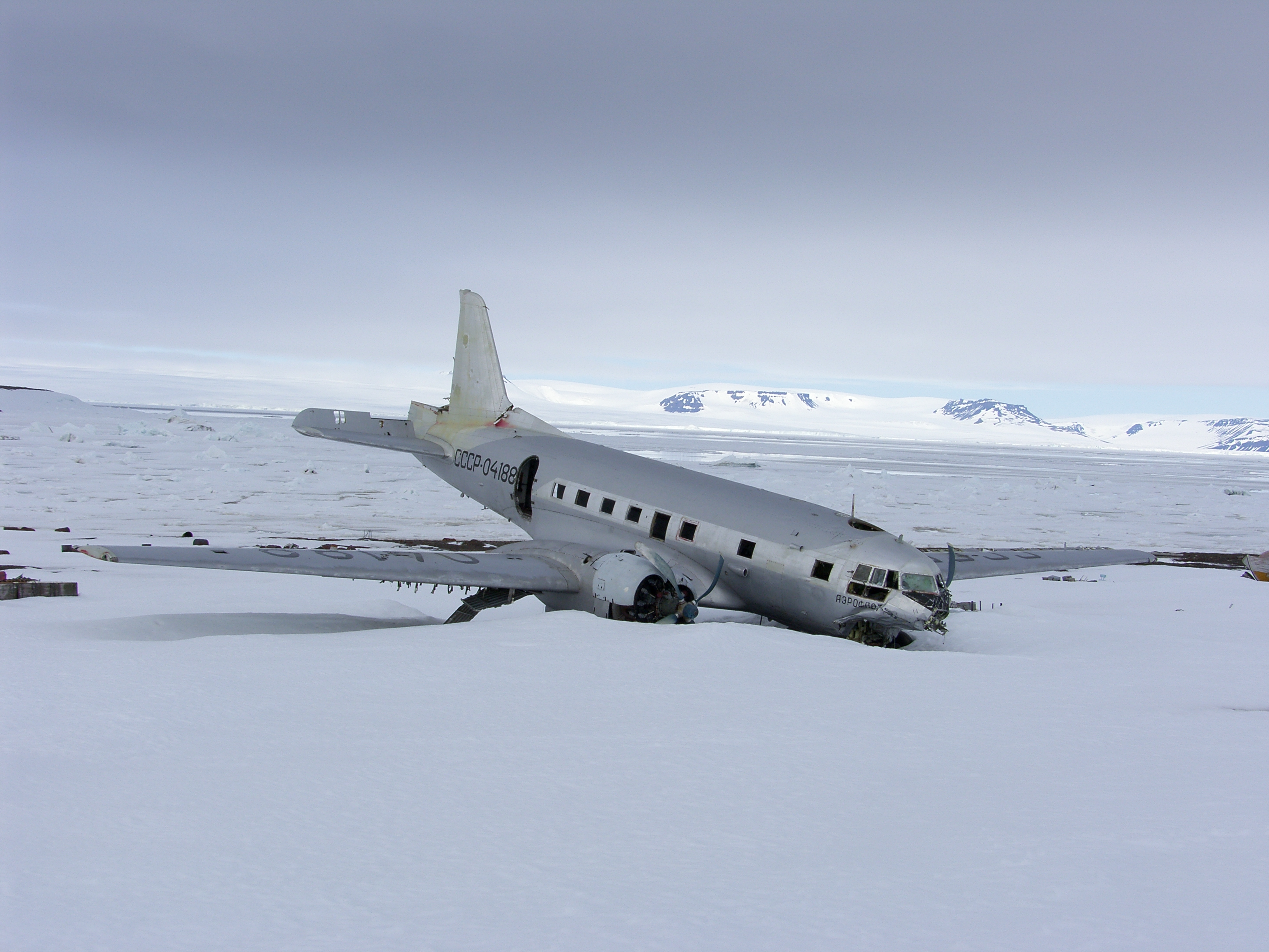 Polar Geophysical Observatory named Krenkel, Heiss Island, Franz Josef Land. Photo by Sergey Slepnev, 2007, September